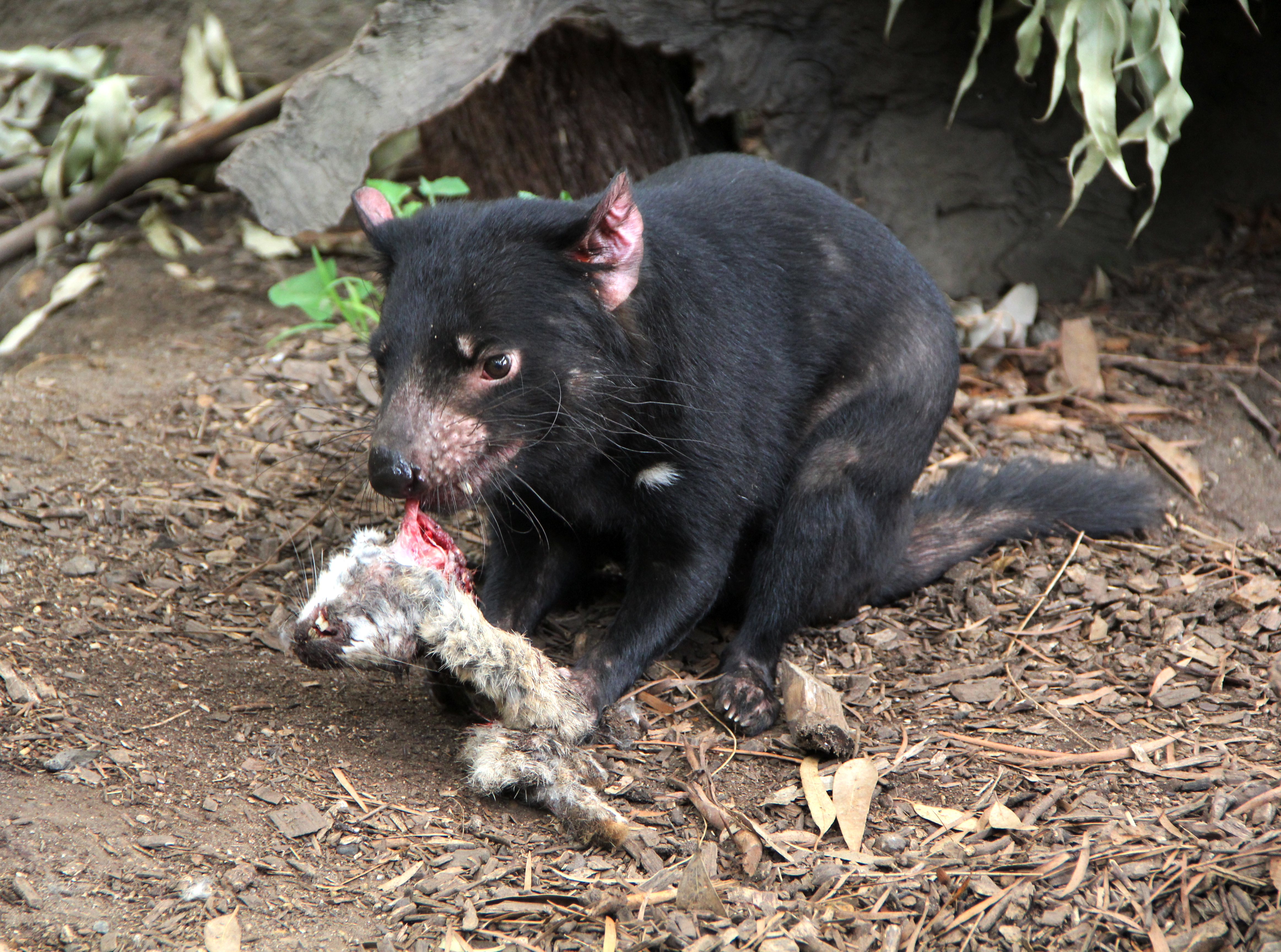 Tasmanian devil eating at the Melbourne Zoo.